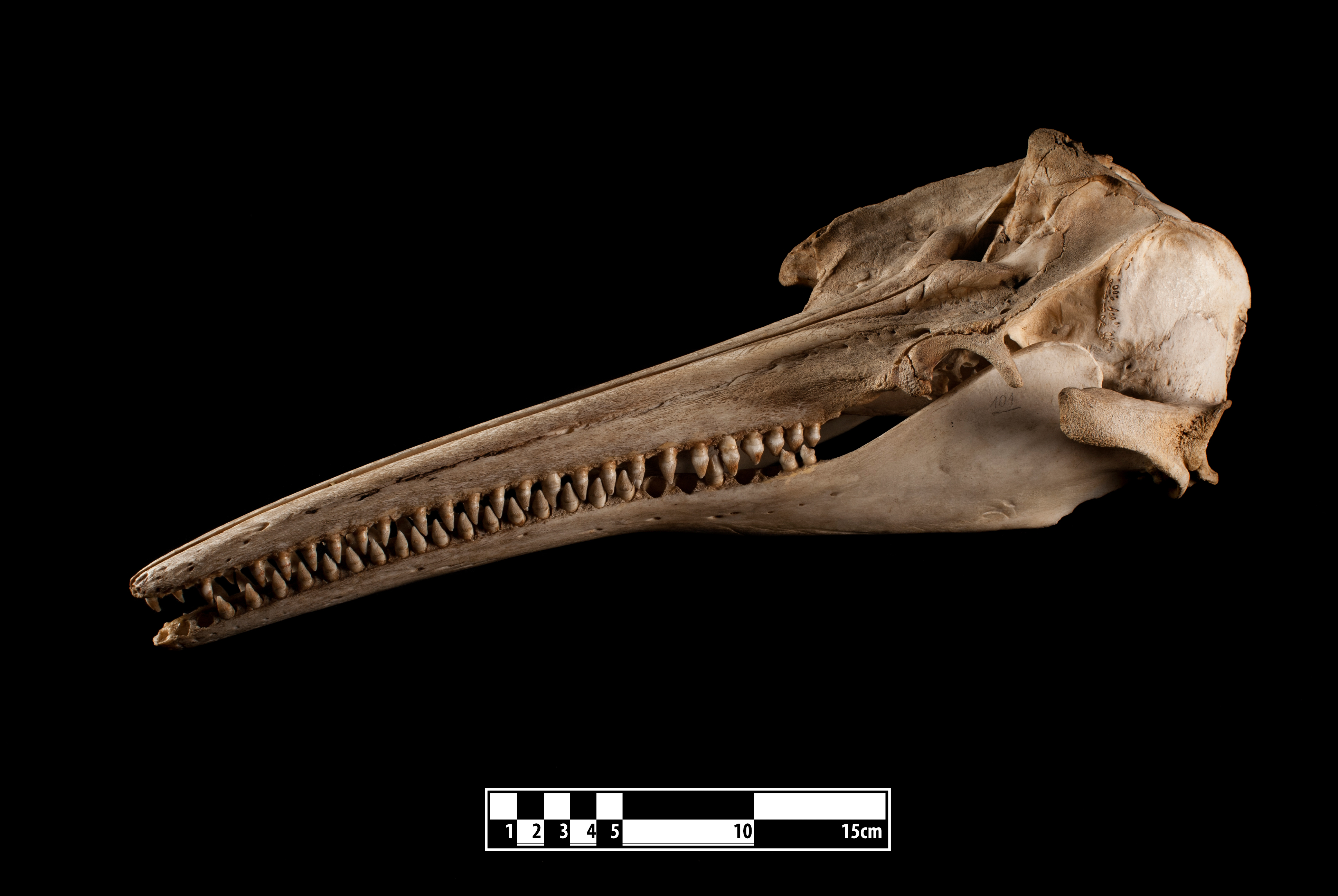 Boto skull (Inia spp). Specimen of boto skull prepared by the bone maceration technique and on display at the Museum of Veterinary Anatomy FMVZ USP. This file was published as the result of a partnership between the Museum of Veterinary Anatomy FMVZ USP, the RIDC NeuroMat and the Wikimedia Community User Group Brasil. This GLAM project is reported. Photography: Museum of Veterinary Anatomy FMVZ USP. Author: Wagner Souza e Silva.